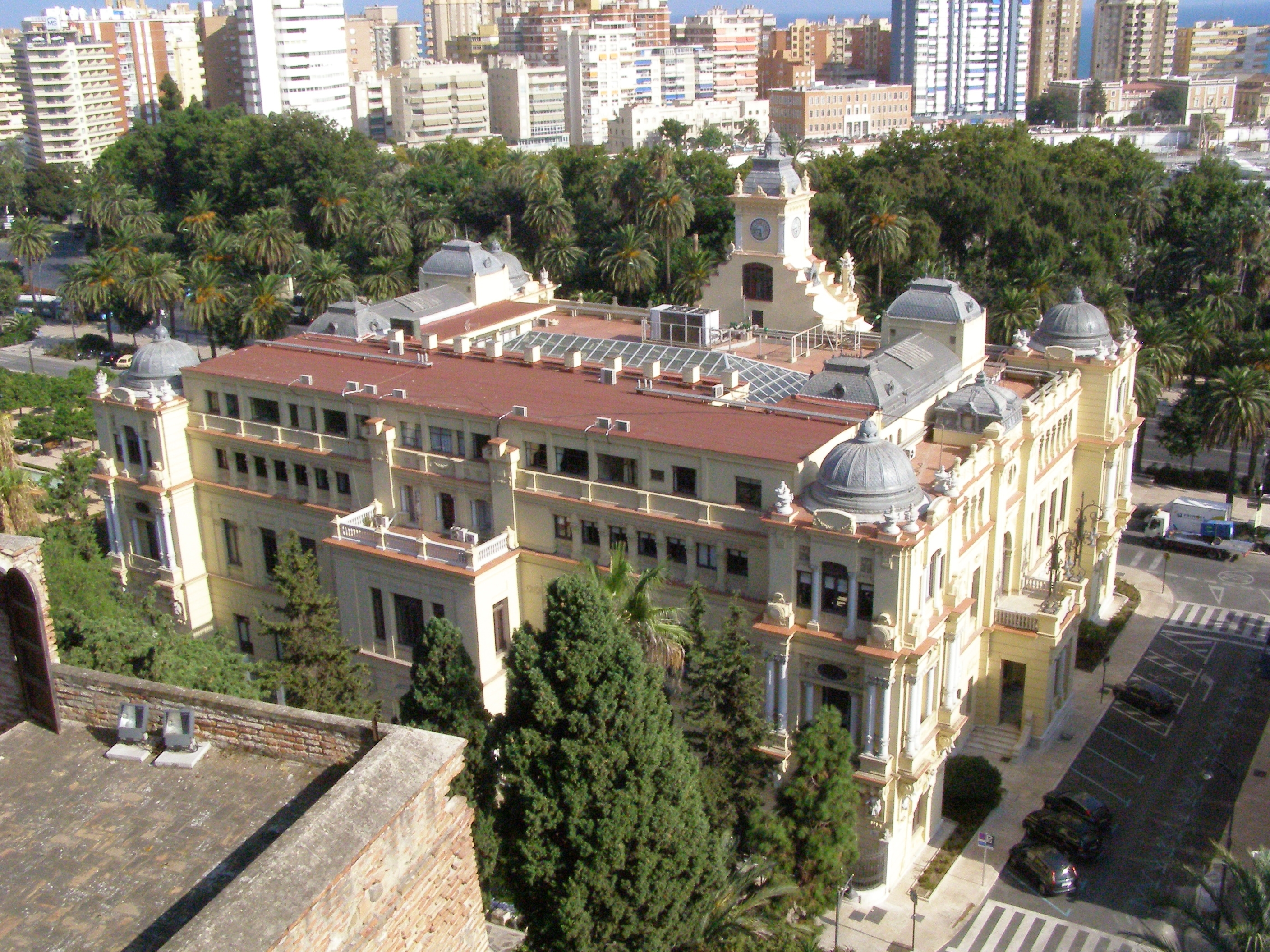 Malaga - town hall